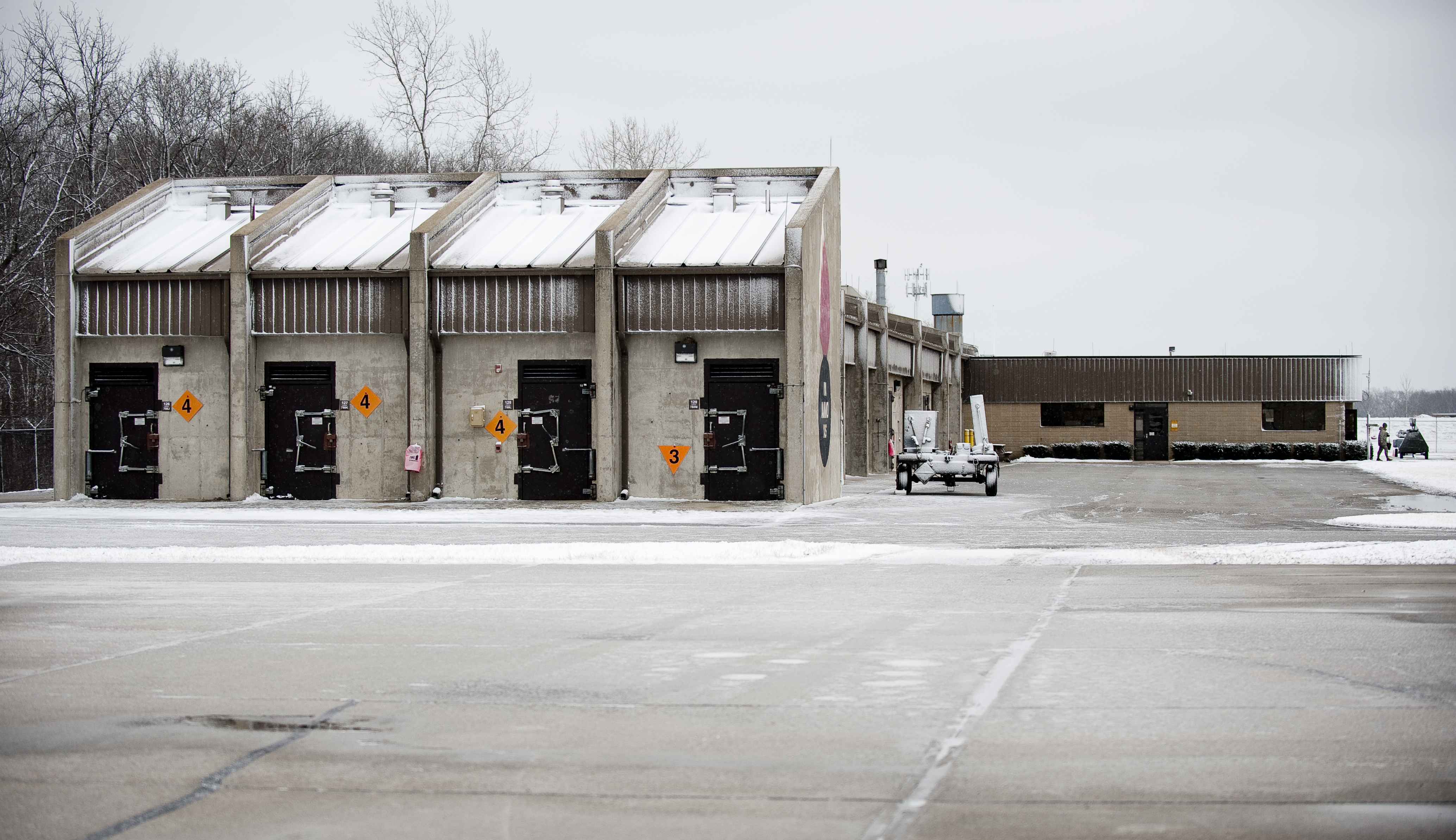 A 122nd Fighter Wing munitions storage facility sits under a fresh coating of snow, Jan. 10, 2016, at the Indiana Air National Guard Base, Fort Wayne, Ind. The aging facility was originally constructed in 1991 and has served as munitions storage for both F-16 and A-10C aircraft. (U.S. Air National Guard photo by Staff Sgt. William Hopper) Unit: 122nd Fighter Wing